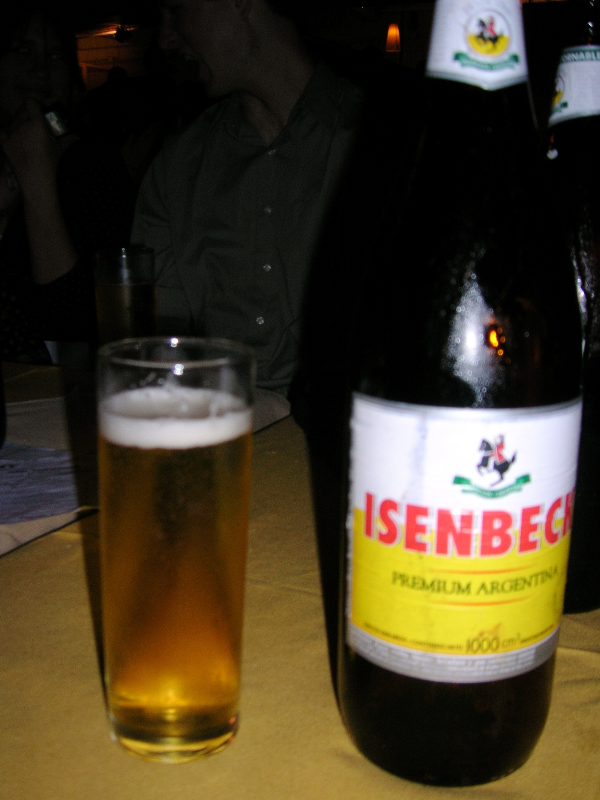 Isenbeck beer, not as good as Quilmes